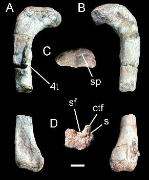 Left femur of Alwalkeria maleriensis (ISI R 306, holotype). A, posterior, B, anterior, C, proximal, D, distal views